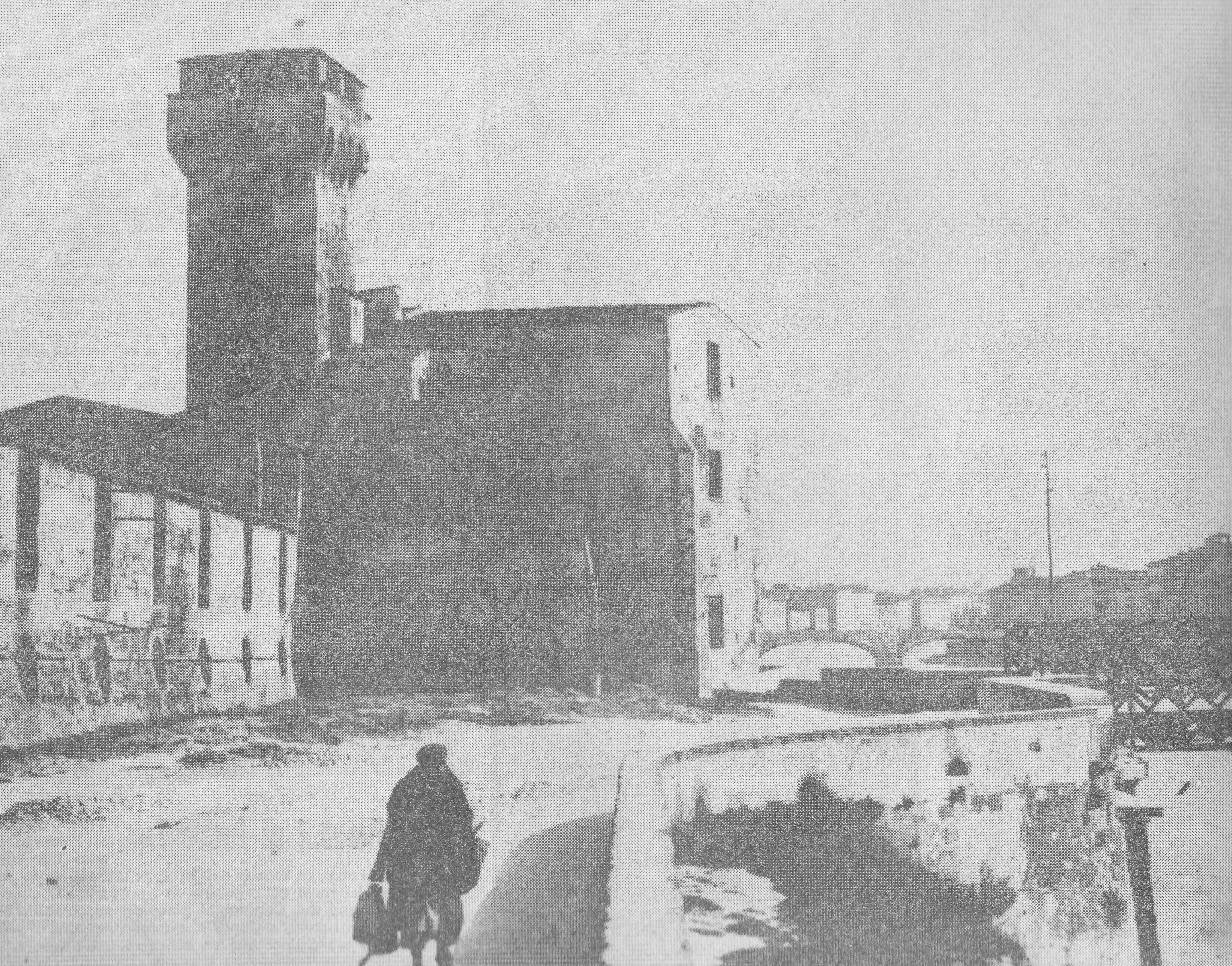 Cittadella and old iron bridge in Pisa, Tuscany, Italy.